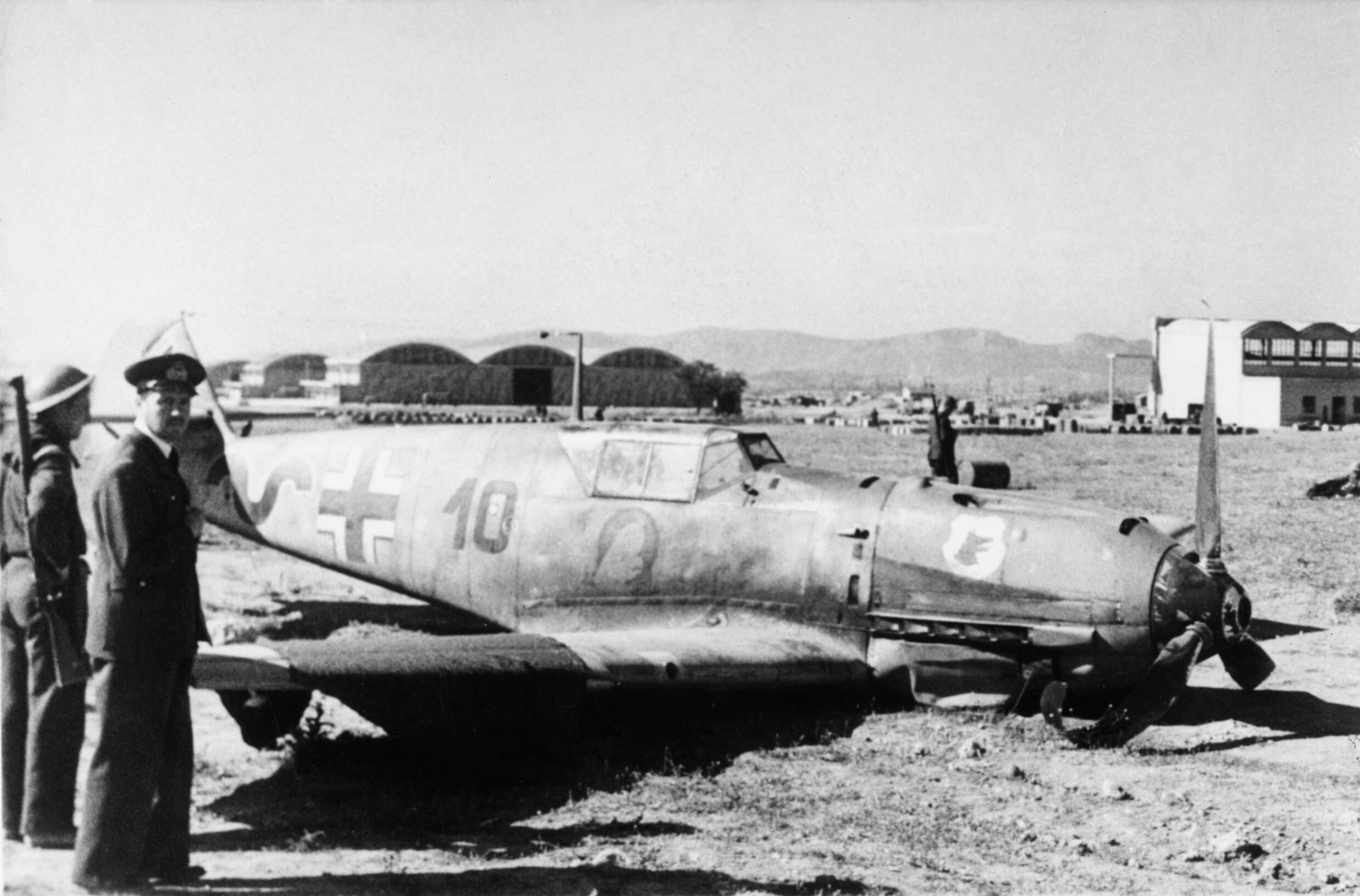 Royal Air Force- Operations Over Albania and in Greece, 1940-1941. A Messerschmitt Bf 109E of III/JG 77 which crash-landed on the airfield at Larissa, Greece, possibly one of two claimed shot down by Squadron Leader "Pat" Pattle, the Officer Commanding No. 33 Squadron RAF on 20 April 1941.